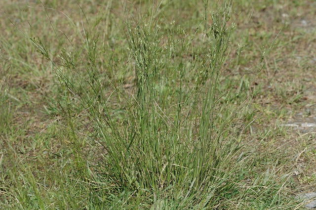 Picture taken in Commanster, Belgian High Ardennes . Species: Juncus tenuis